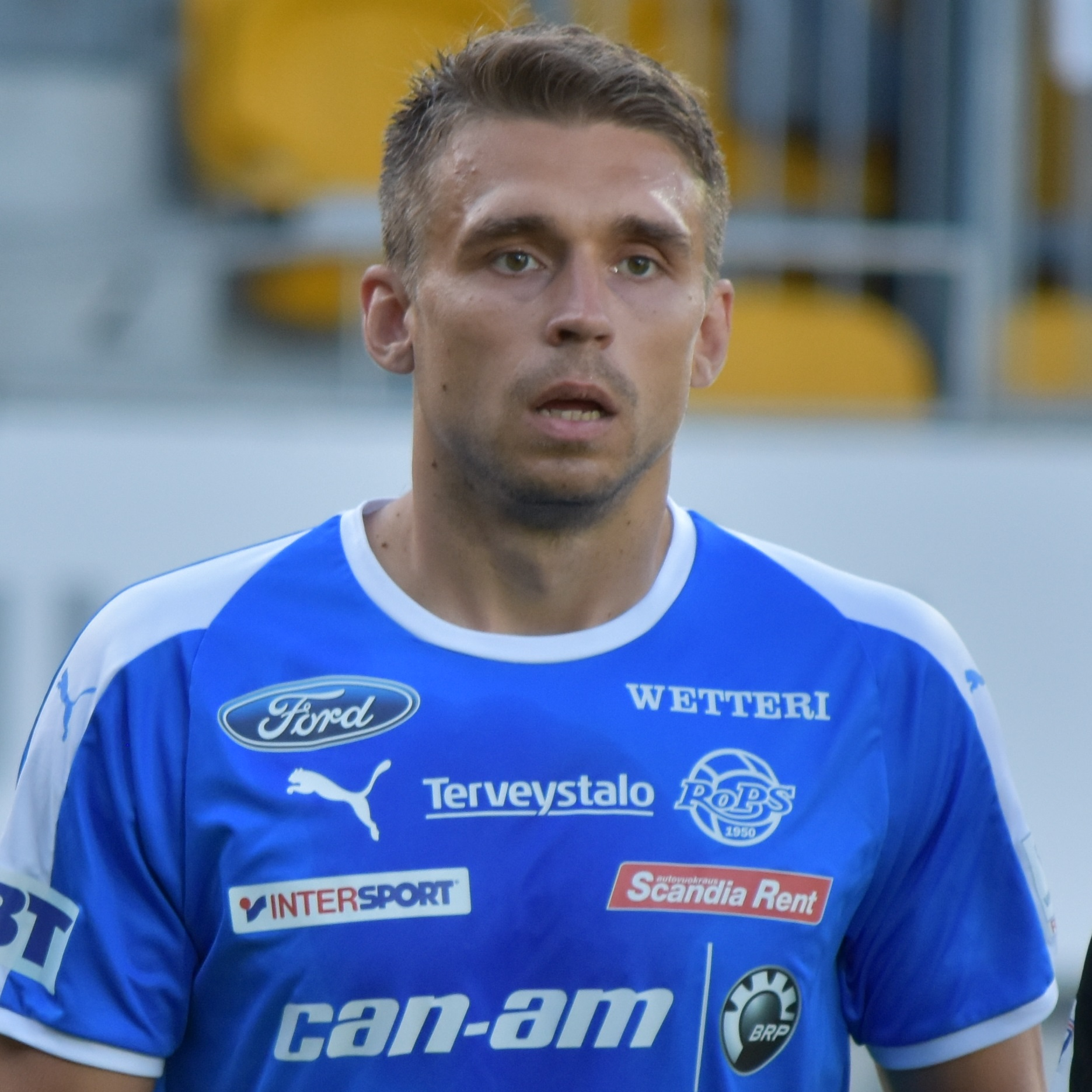 Association football player Aleksandr Kokko (RoPS)